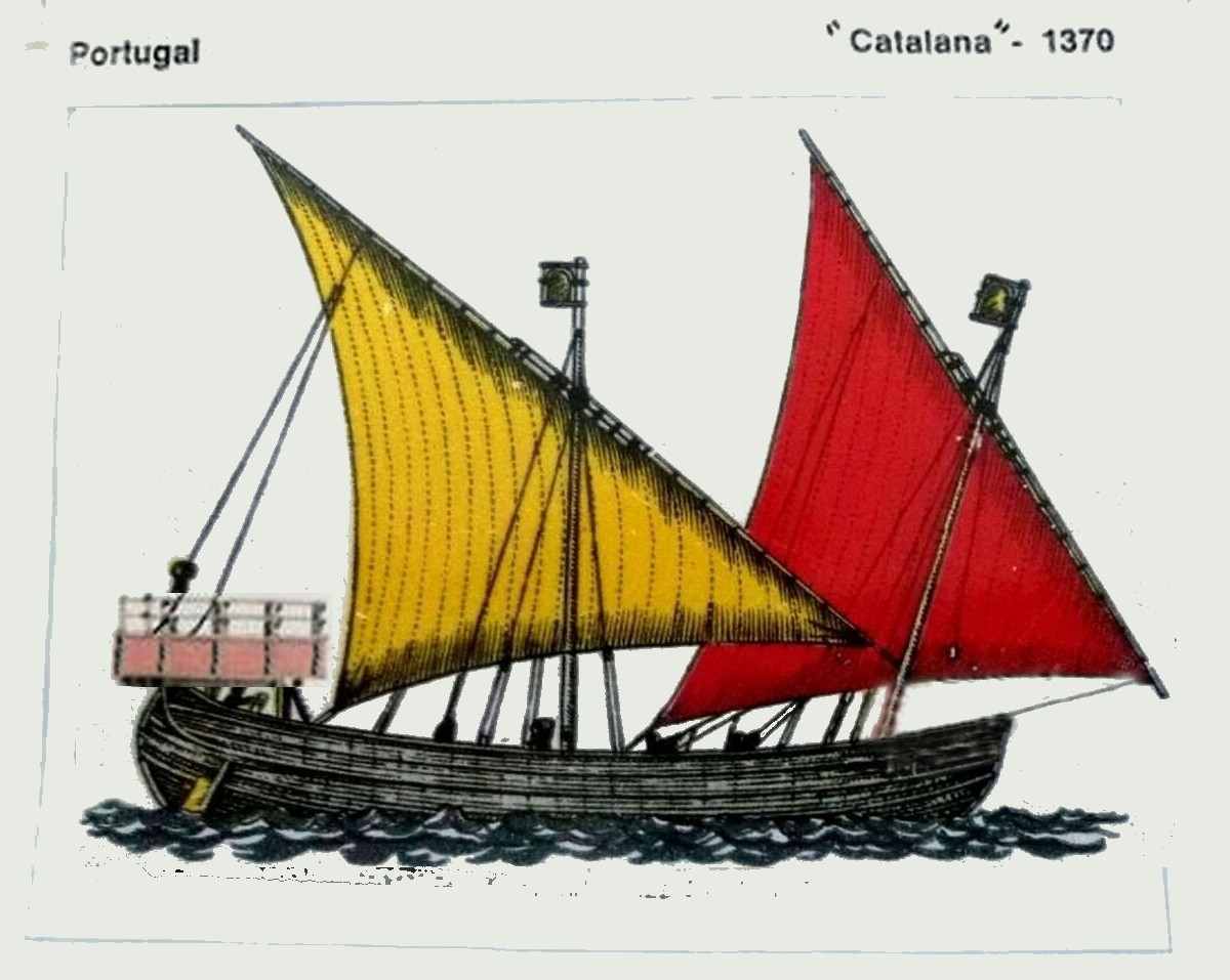 Reconstruction of the image labeled: "Portugal.. Catalana - 1370 (just the style and rigging) that appears in the book: Sailing ships ([Attilio Cucari (1978) Sailing Ships, Rand McNally ISBN: 978-0-528-88172-5. Rand McNally color illustrated guides) by Attilio Cucari - Published by Rand McNally, 1978. ISBN 10: 0528881728 / ISBN 13: 9780528881725... using the a Copyright free picture stated in the source